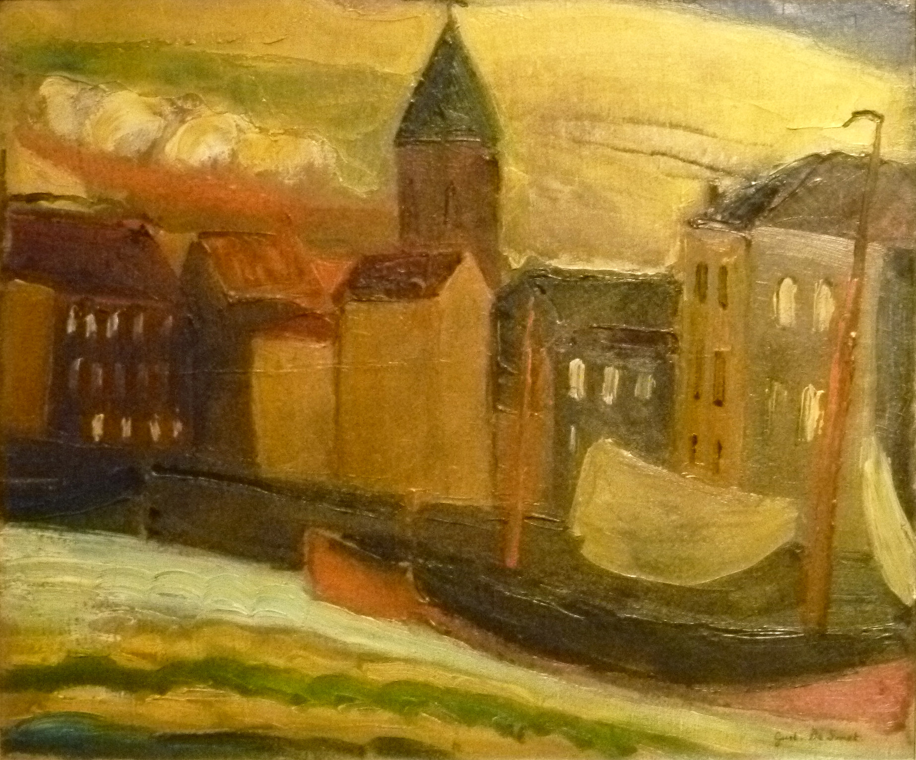 "The port of Ostend" (1922), oil on canvas by the Belgian expressionist painter Gustave De Smet; in private collection